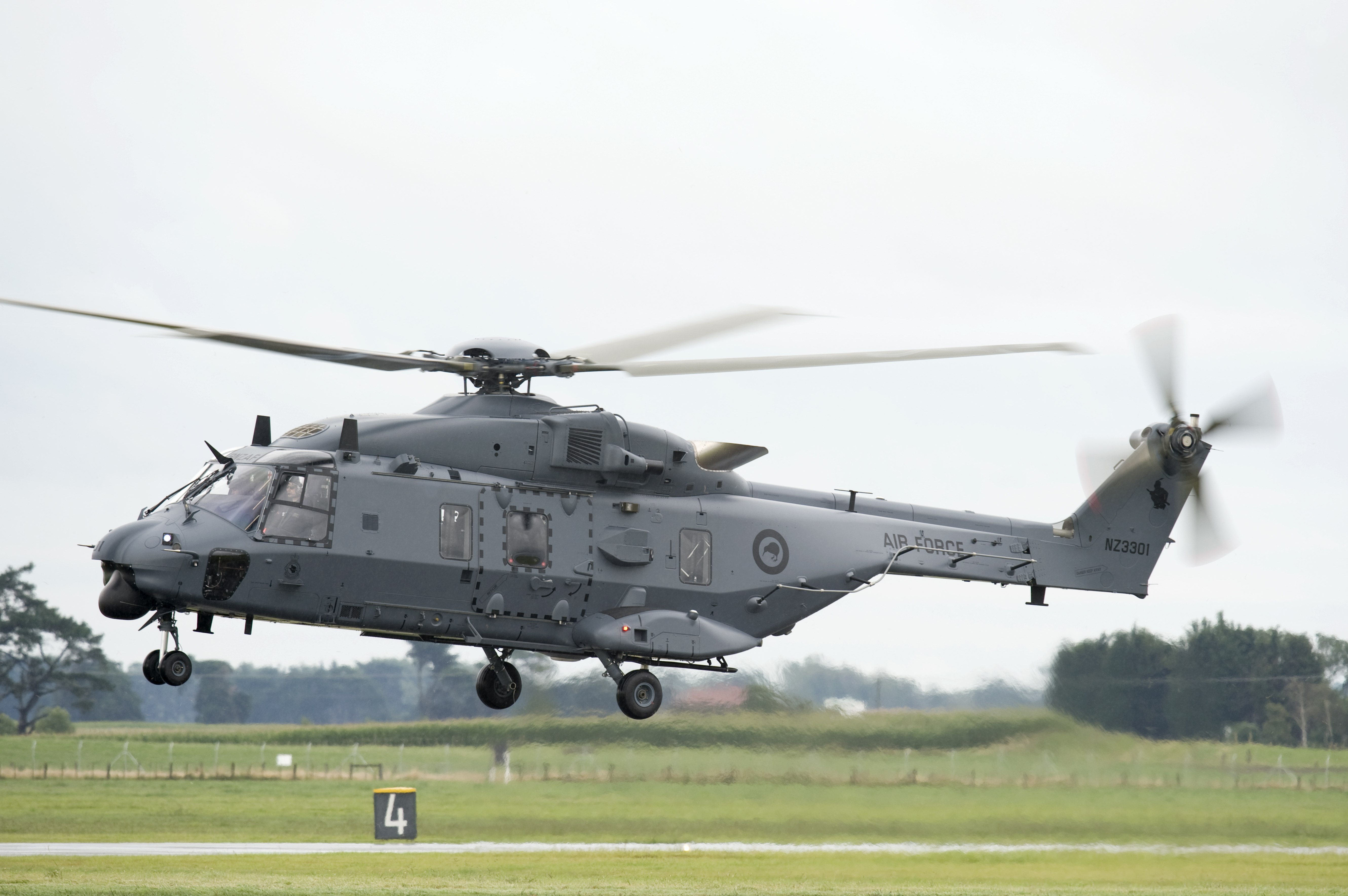 First flight of a Royal New Zealand Air Force NH-90